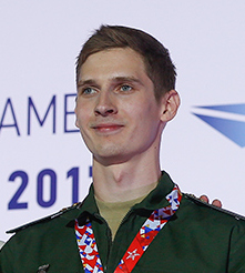 Podium in bouldering at the 2017 CISM Winter World Games.From left to right: Manuel Cornu from France (silver); Vadim Timonov from Russia (gold); Domen Škofic from Slovenia (bronze).